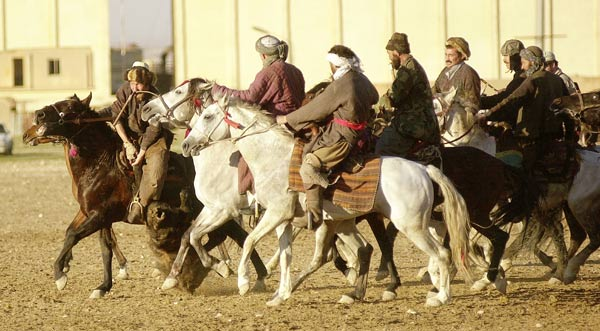 Game of Buzkashi in Mazar-e Sharif, Afghanistan, Dec. 18, 2001. U.S. Air Force photo by StaffSgt. Cecilio Ricardo caption